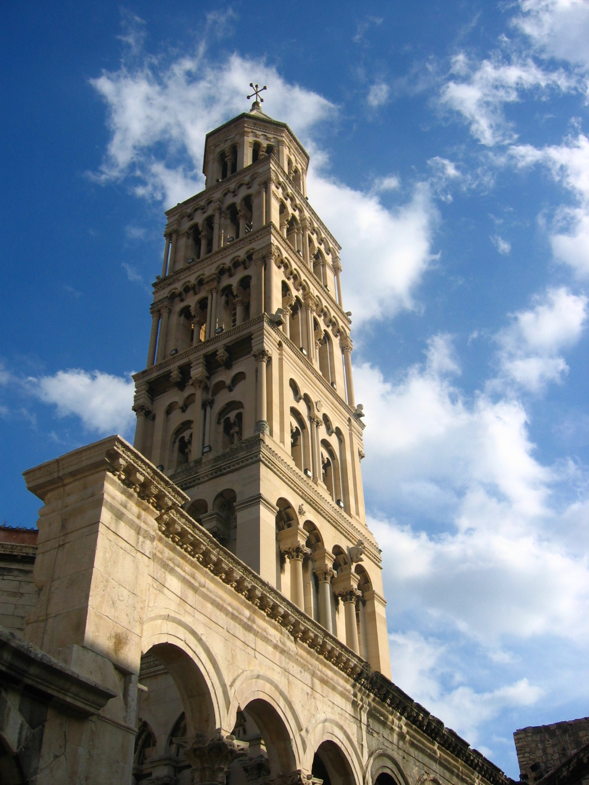 Sv. Duje cathedral, Split, Croatia